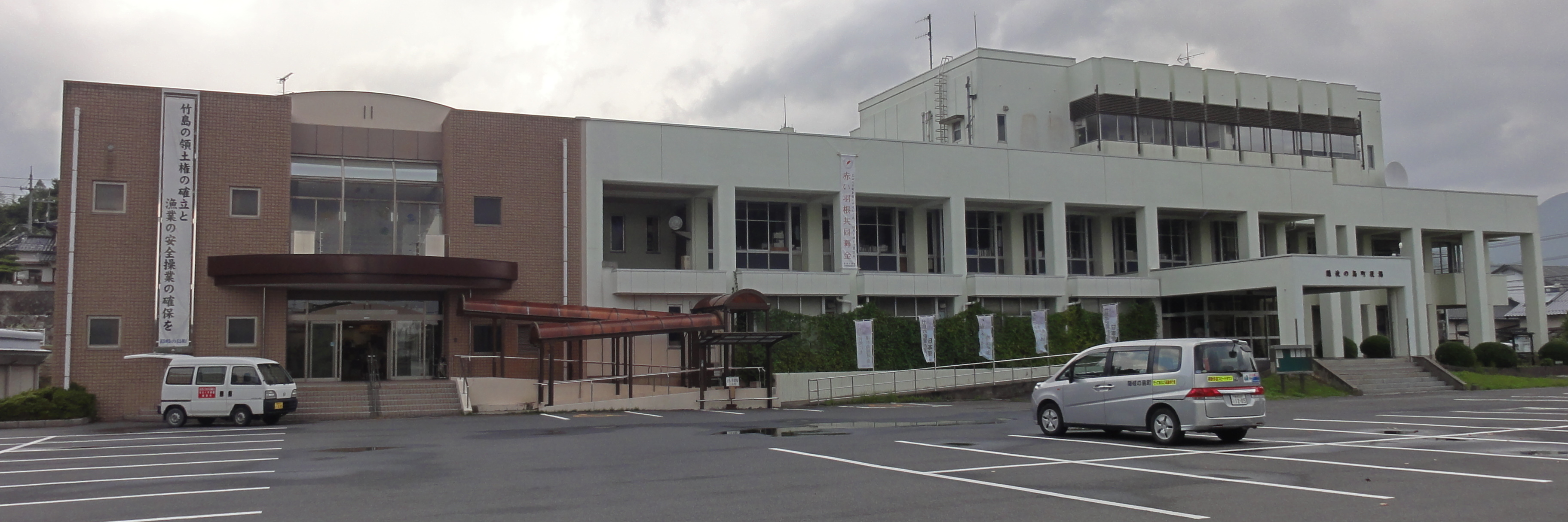 Okinoshima town office,Shimane prefecture,Japan